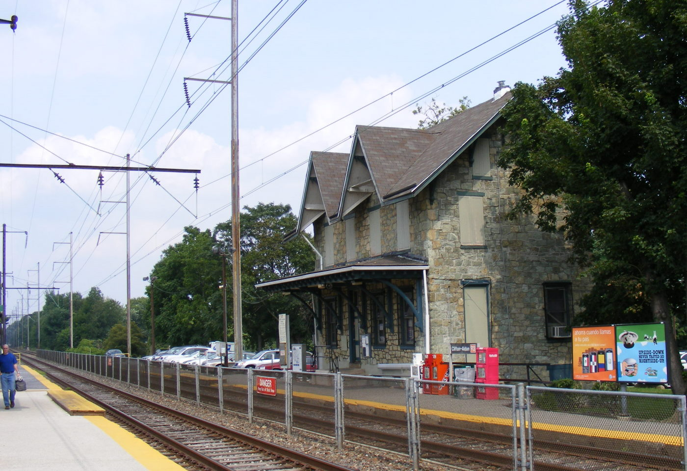 The station house at Clifton-Aldan (SEPTA station).